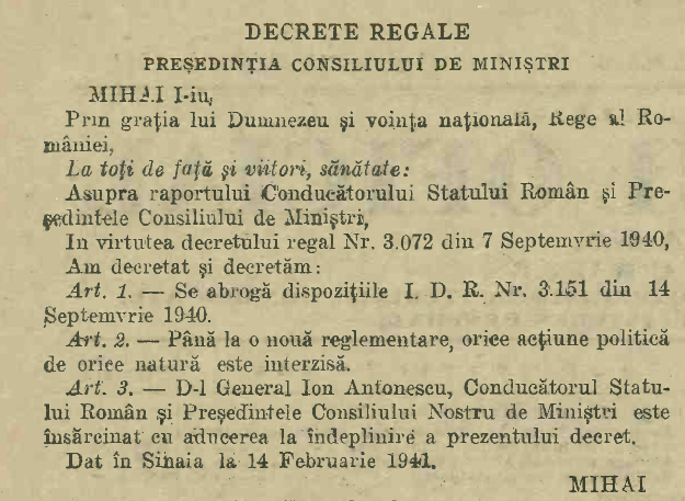 Royal decree by which the National Legionary State was abrogated. Signed 1941-02-14, published 1941-02-15.